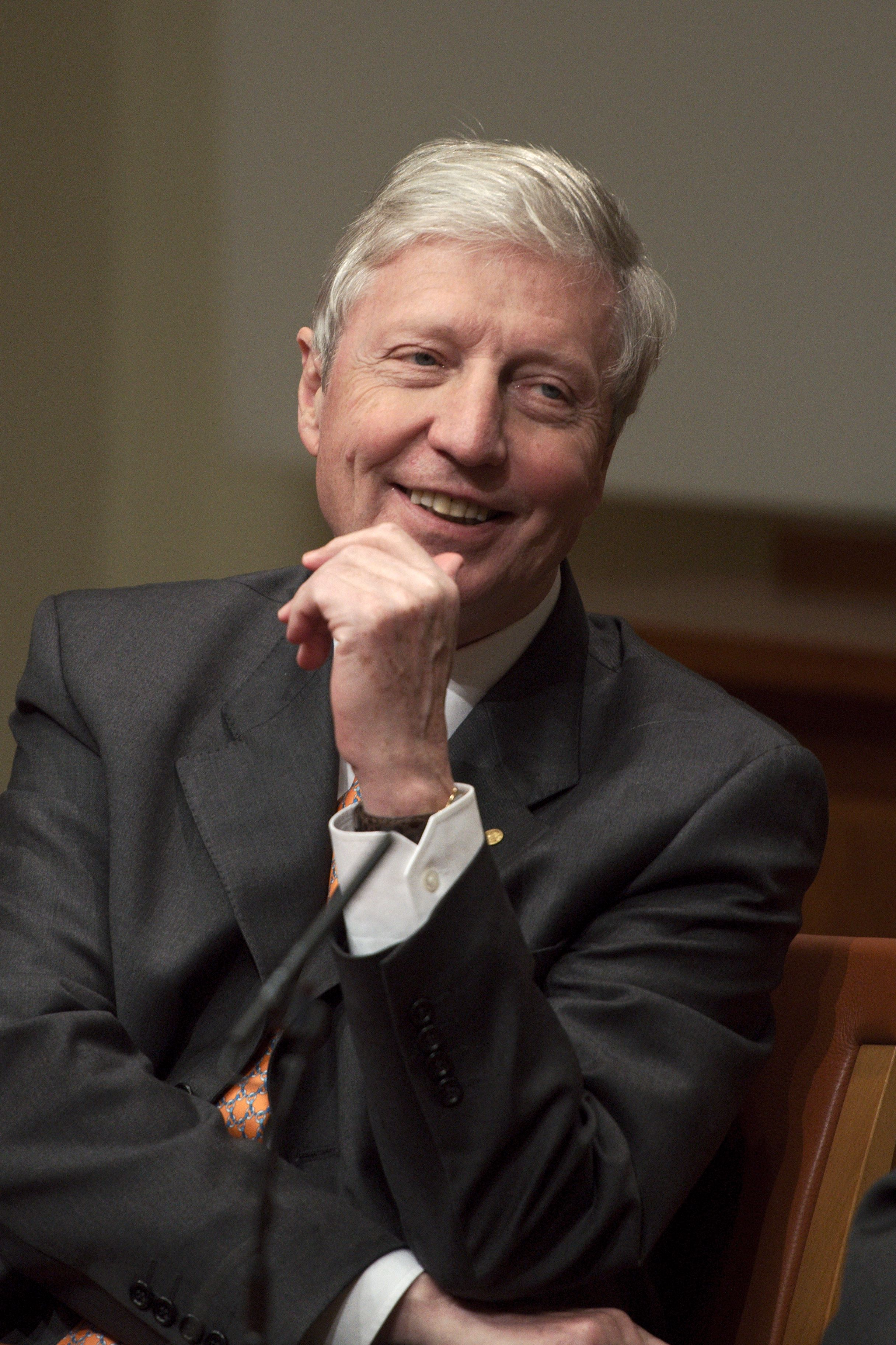 Nobel Prize 2011, press conference with the laureates of the Nobel prize in Physiology or Medicine: Jules Hoffmann.